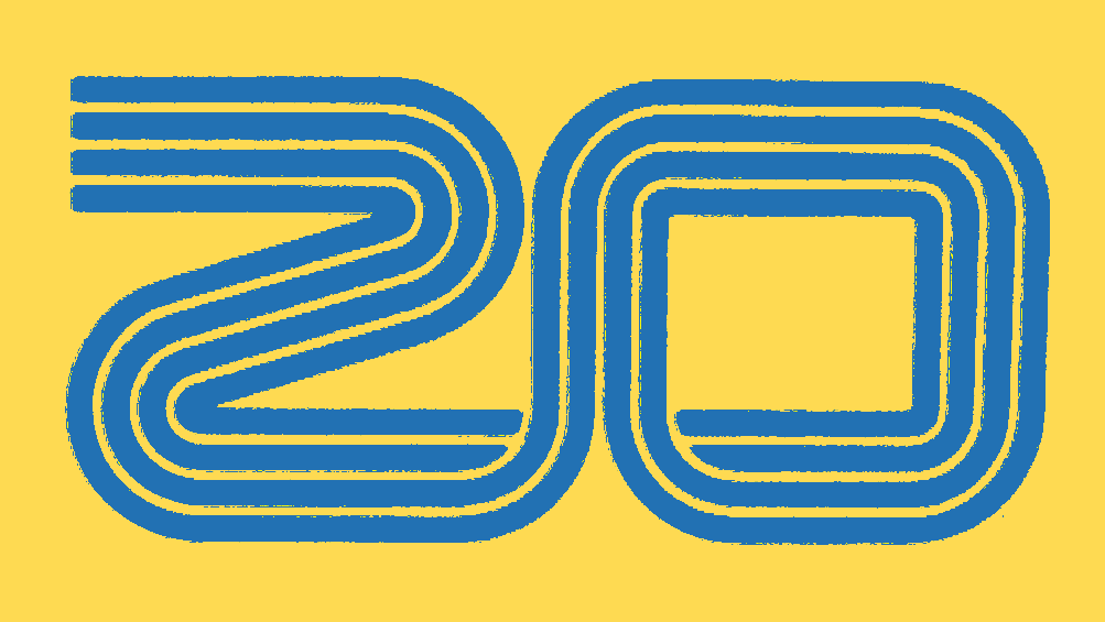 Logo of the Zuidooster bus company. In use from 1969 onward. Now found on museumbus ZO 5548.